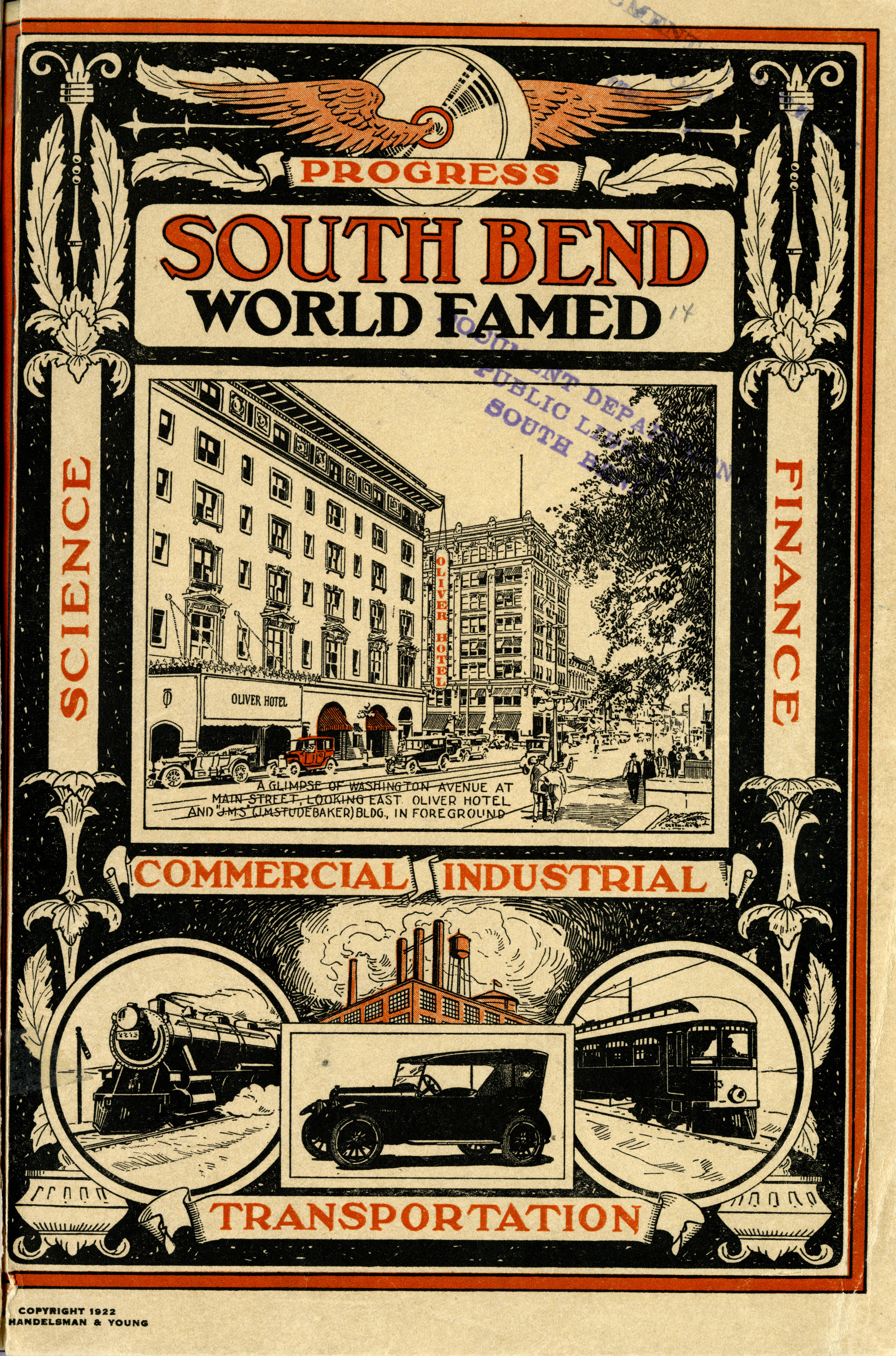 The cover of a promotional pamphlet from 1922 points to the unending progress that early boosters saw as possible in South Bend.